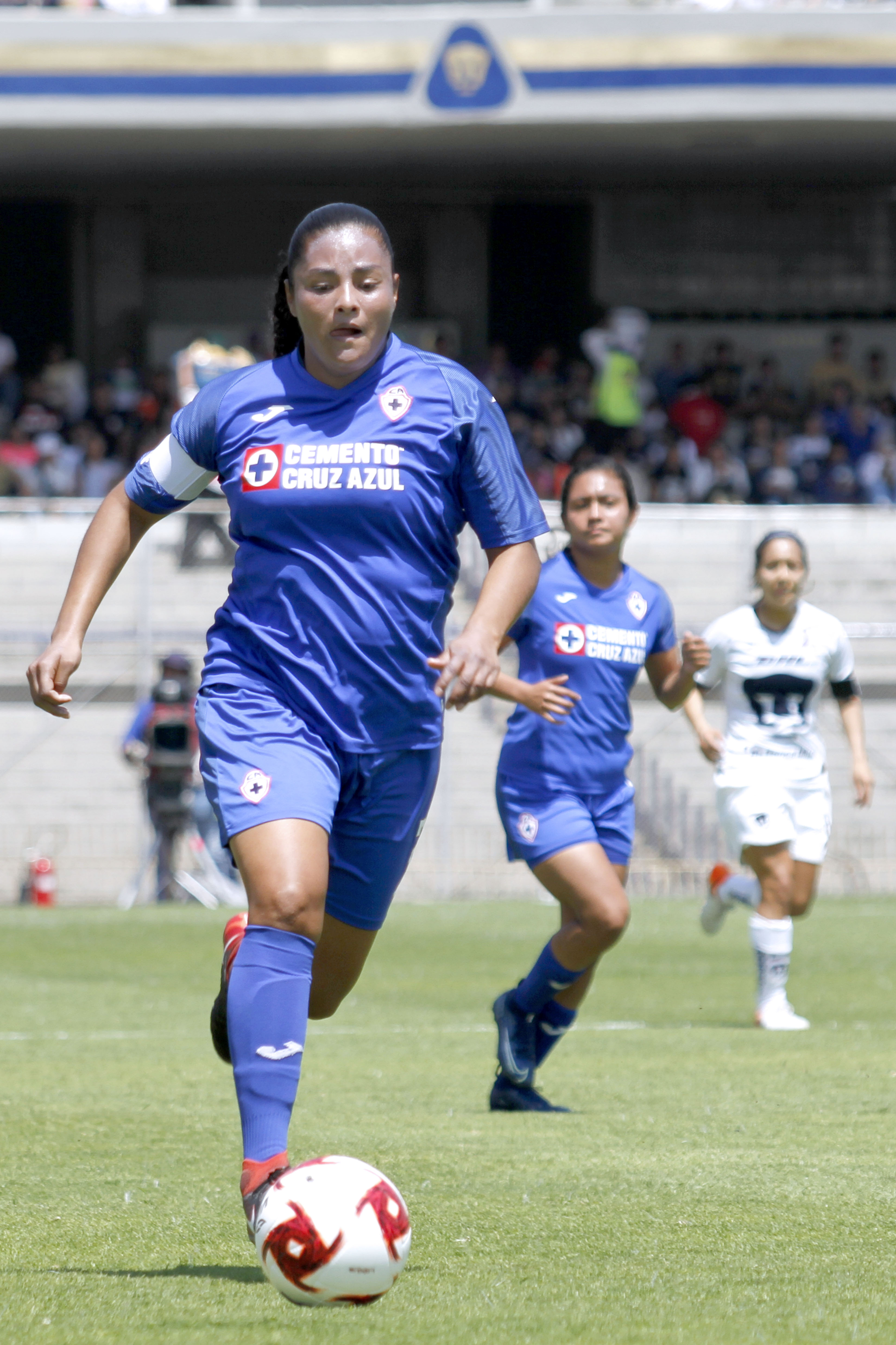 Defender Marylin Díaz from Cruz Azul in March 2020